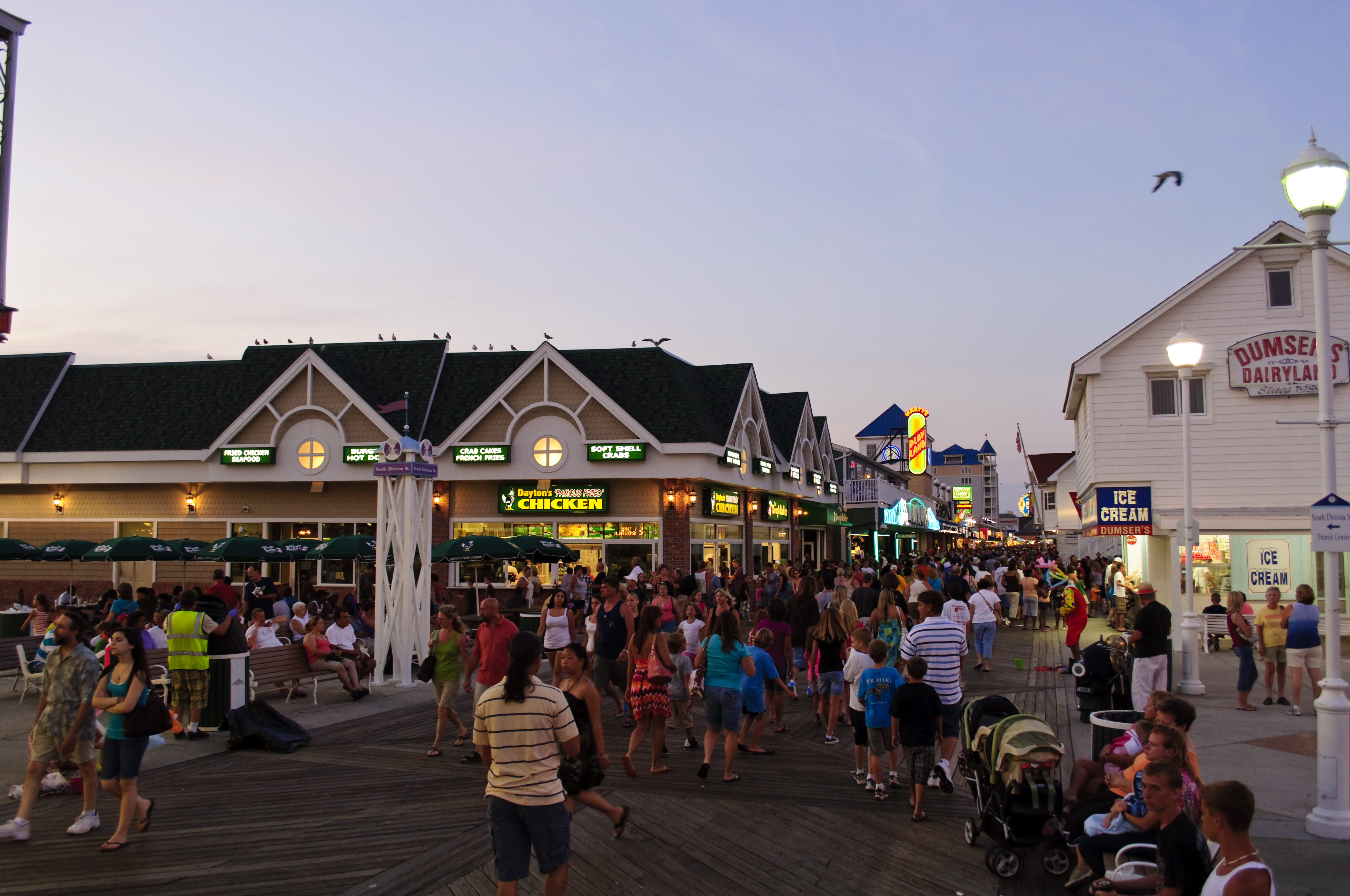 The boardwalk of Ocean City, Maryland